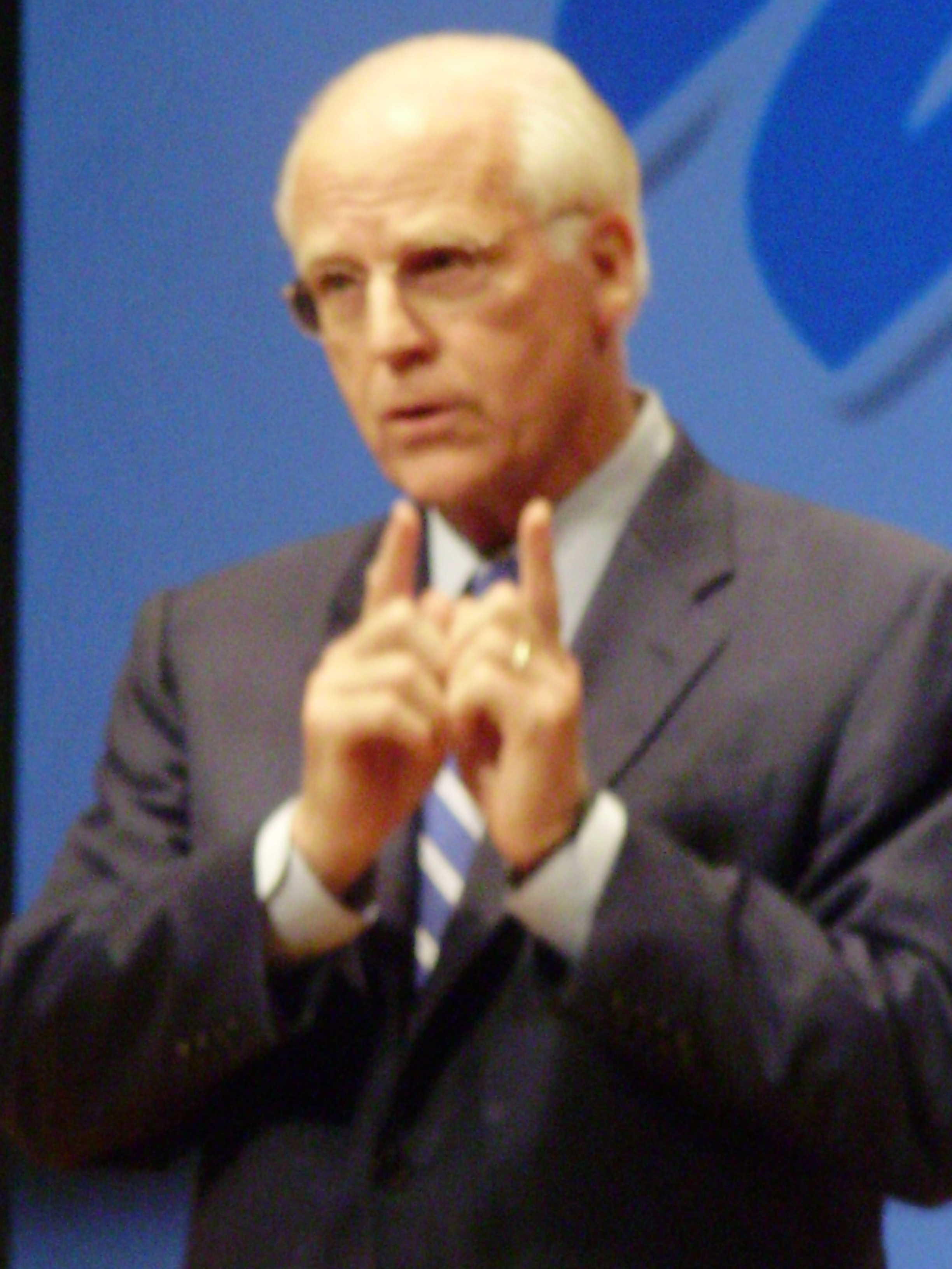 Congressman Christopher Shays (R: CT-04) at a debate at Fairfield University in Fairfield, CT.